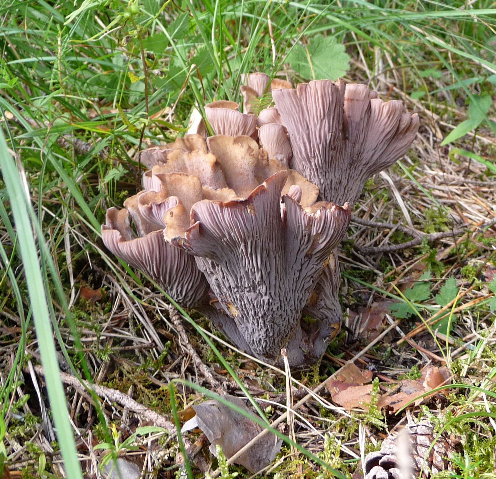 Gomphus clavatus, at the foot of Totes Gebirge, the Alps, Hinterstoder, Oberösterreich, Austria.